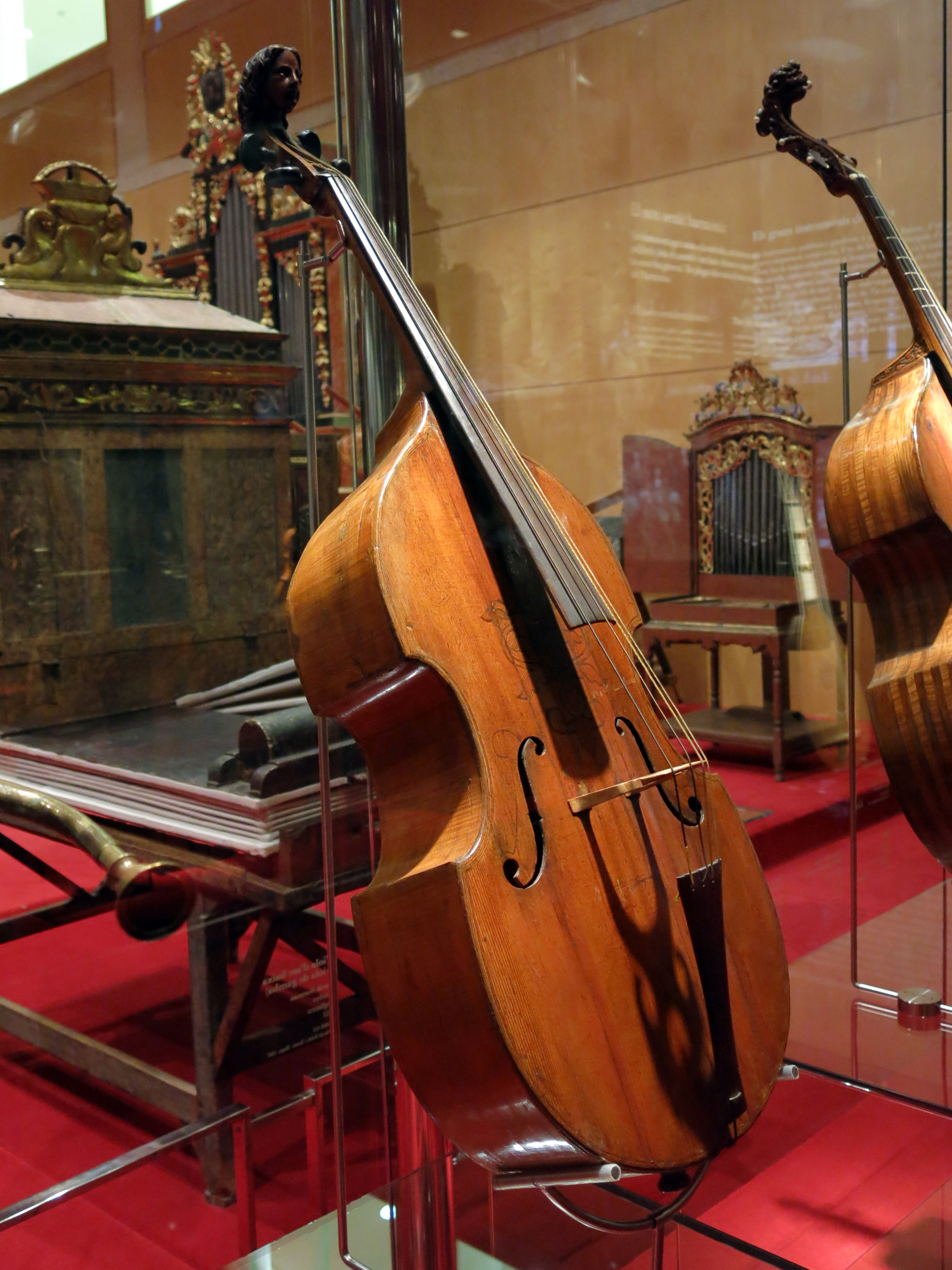 Bass viol, Barak Norman, 1713, Museu de la Música de Barcelona